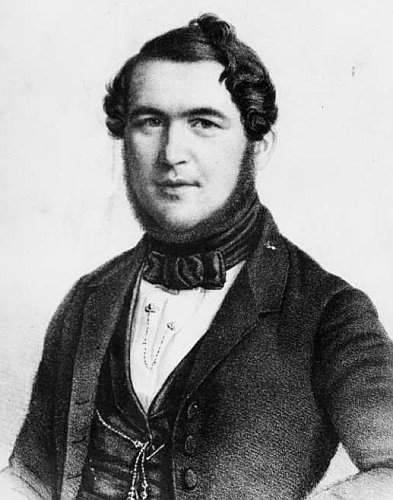 Carl Theodor Gier (1796-1856), Mayor of Mühlhausen, Thuringia, Germany